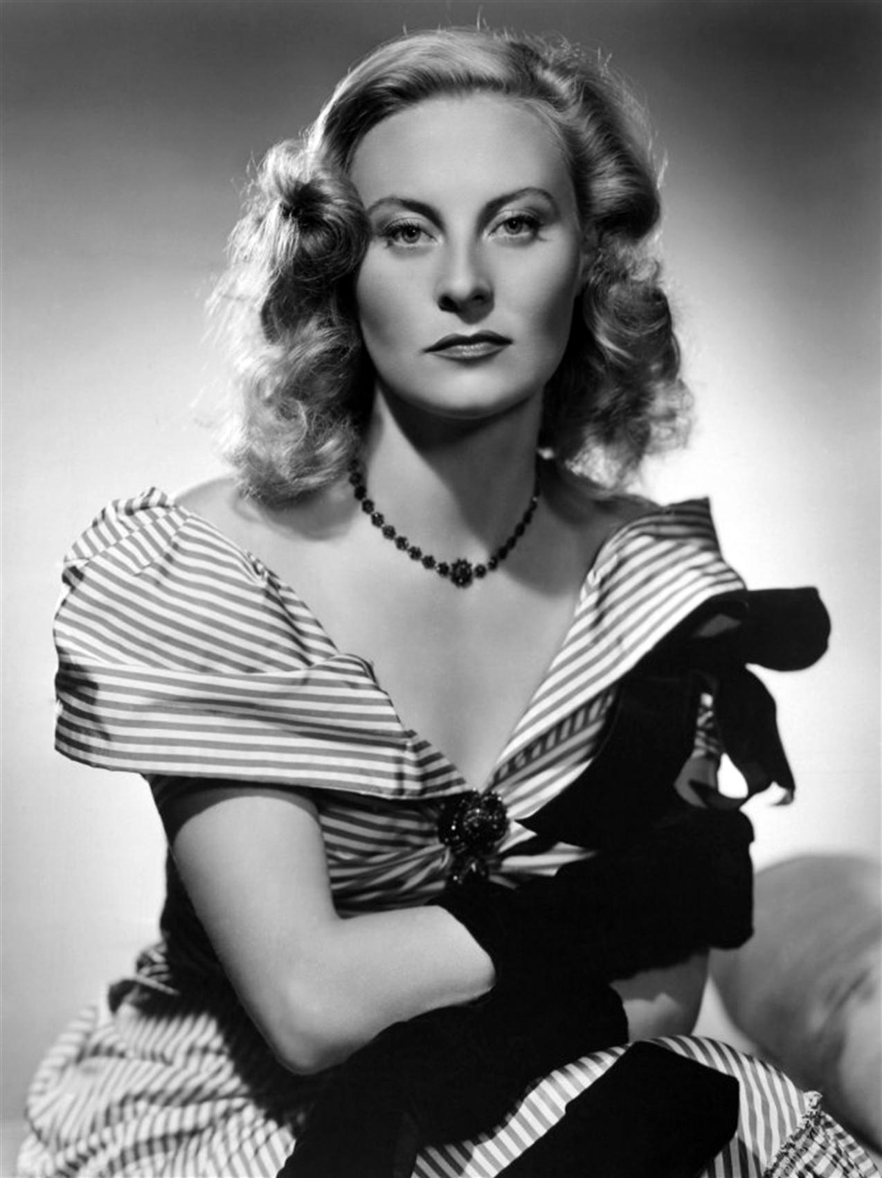 Publicity photo of Michèle Morgan for The Chase.